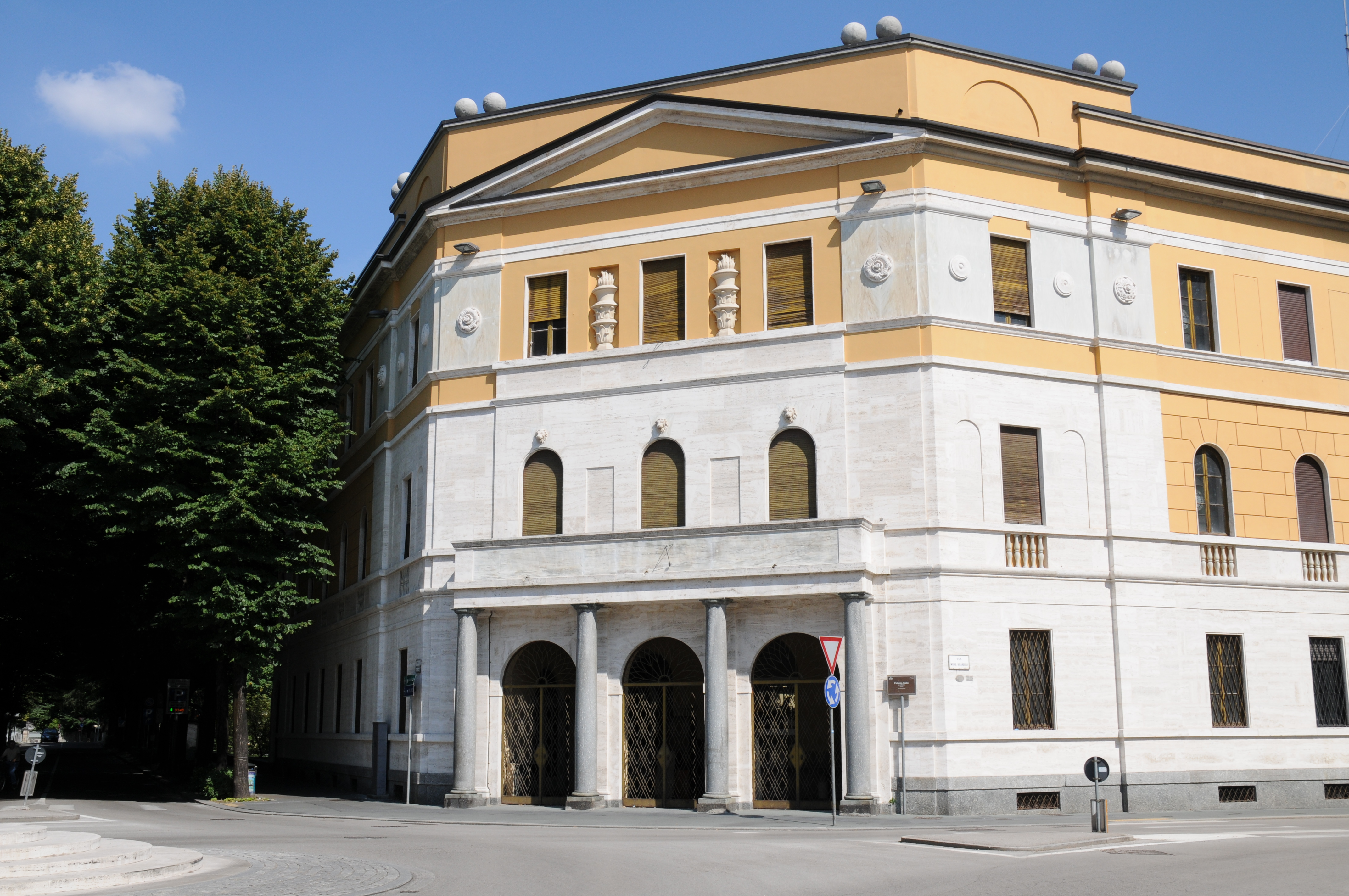 Palazzo Italia in Legnano (Italy)